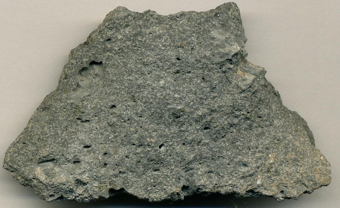 Andesite (7.3 cm across at its widest) - vesicular andesite from a 1.9 million year old lava flow (upper Upper Pliocene) on the eastern side of Sierra Grande Shield Volcano, Raton-Clayton Volcanic Field, northeastern New Mexico, USA. The rock is composed of plagioclase feldspar, augite pyroxene, hypersthene pyroxene, olivine, plus other minerals.